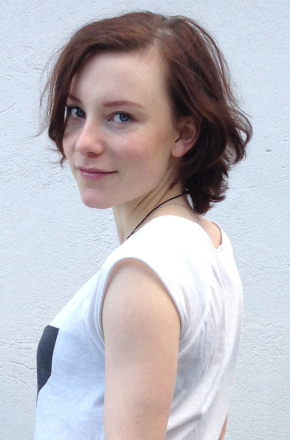 Isabel Bongard, German actress